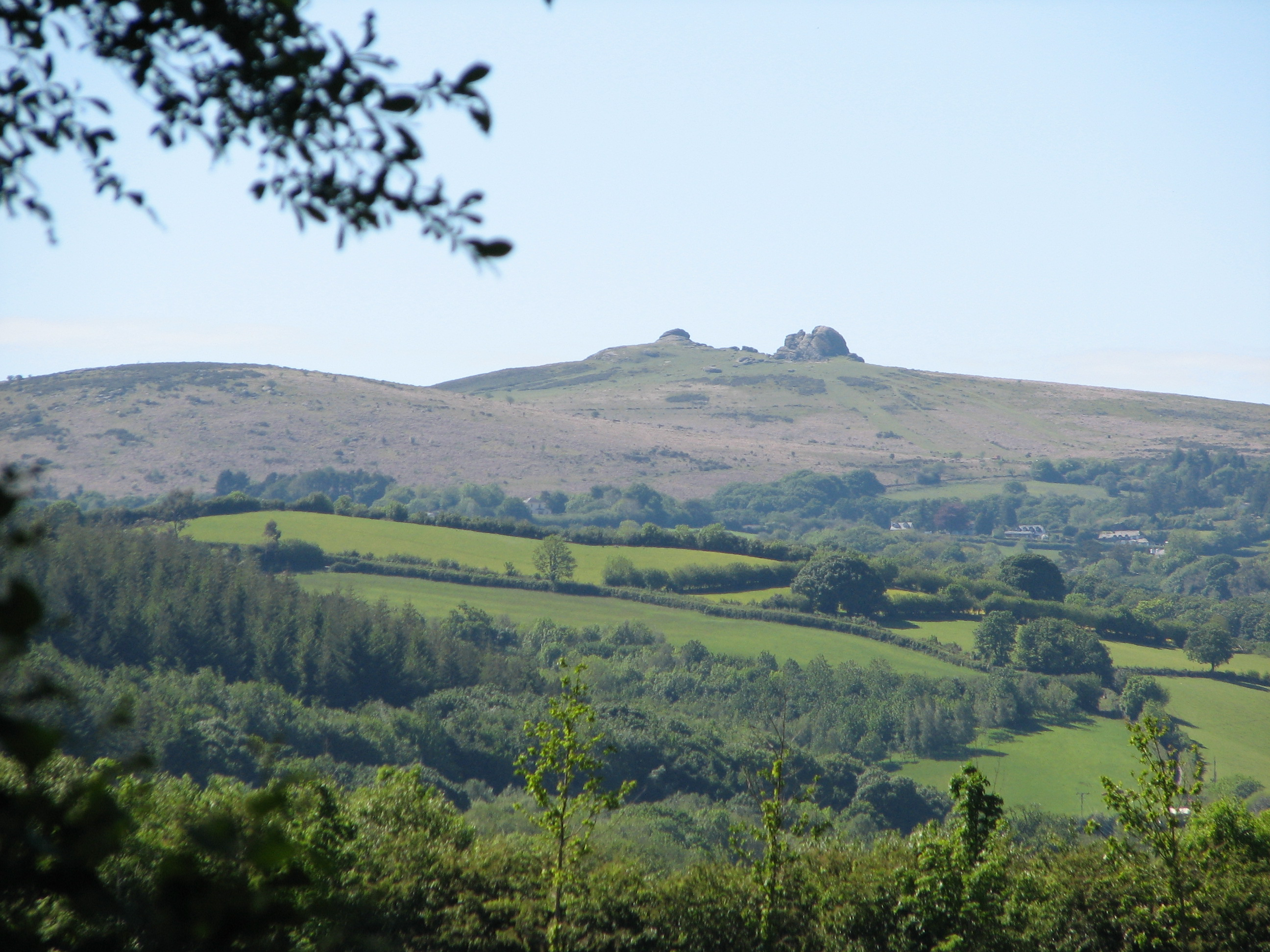 Haytor, Devon as seen from a distance